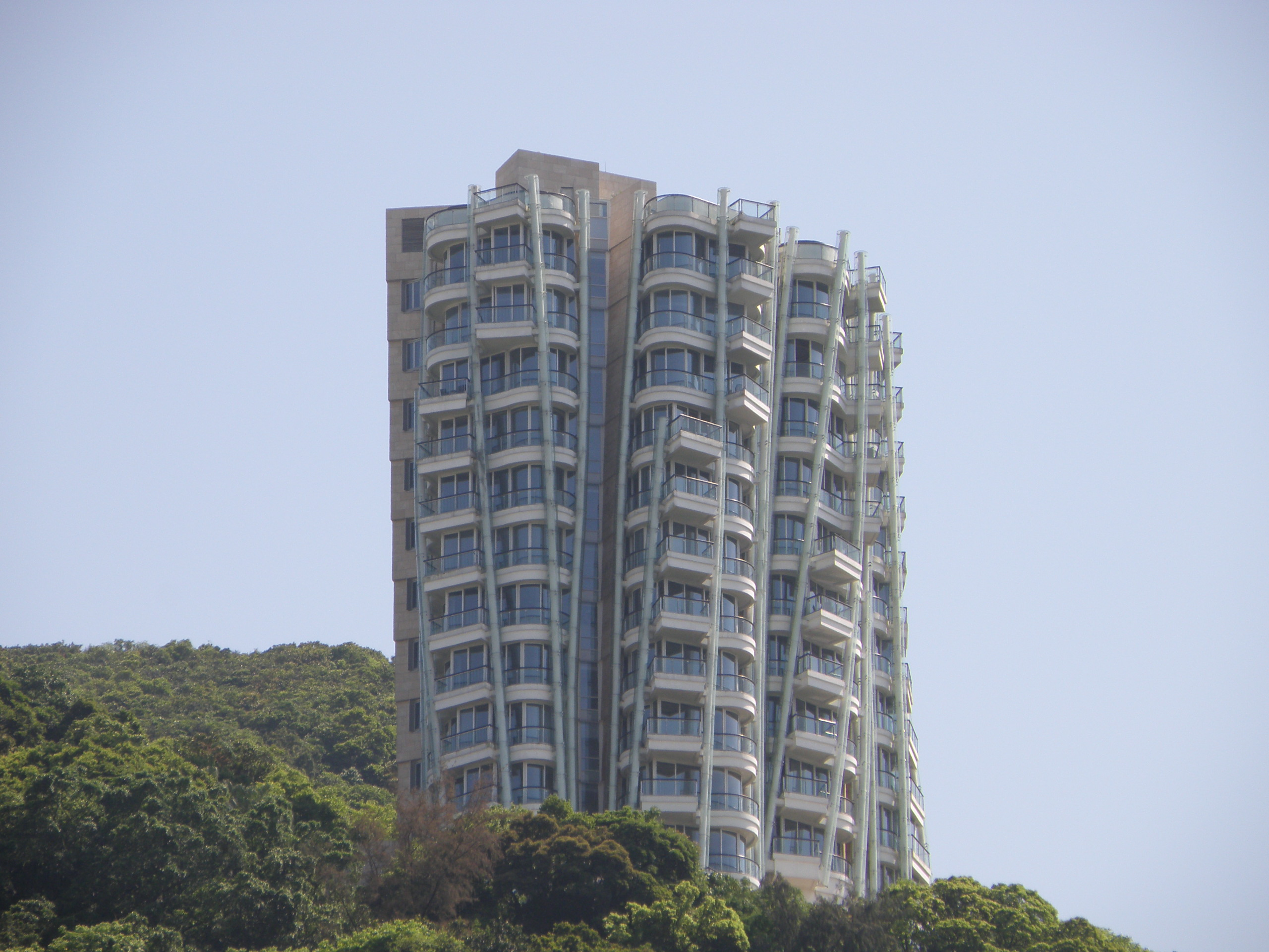 Opus Hong Kong in Wan Chai Gap, Hong Kong.